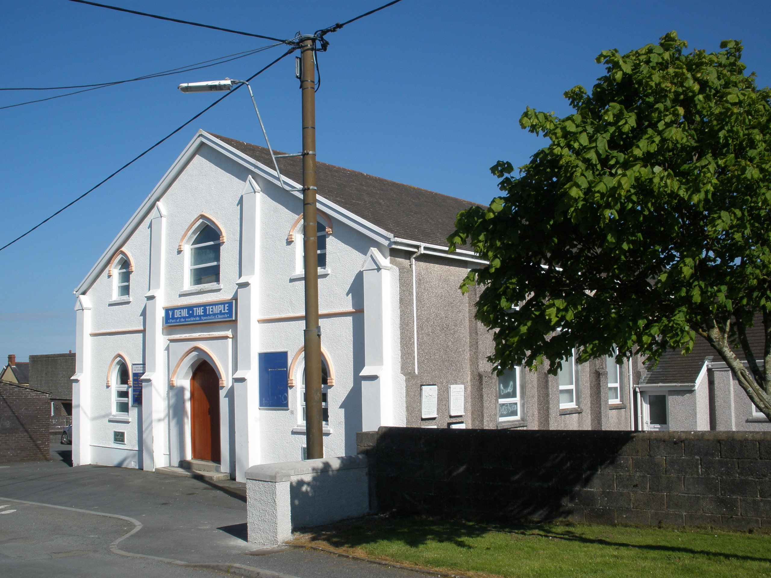 The Apostolic Temple, Penygroes, Carmarthenshire, Wales, UK